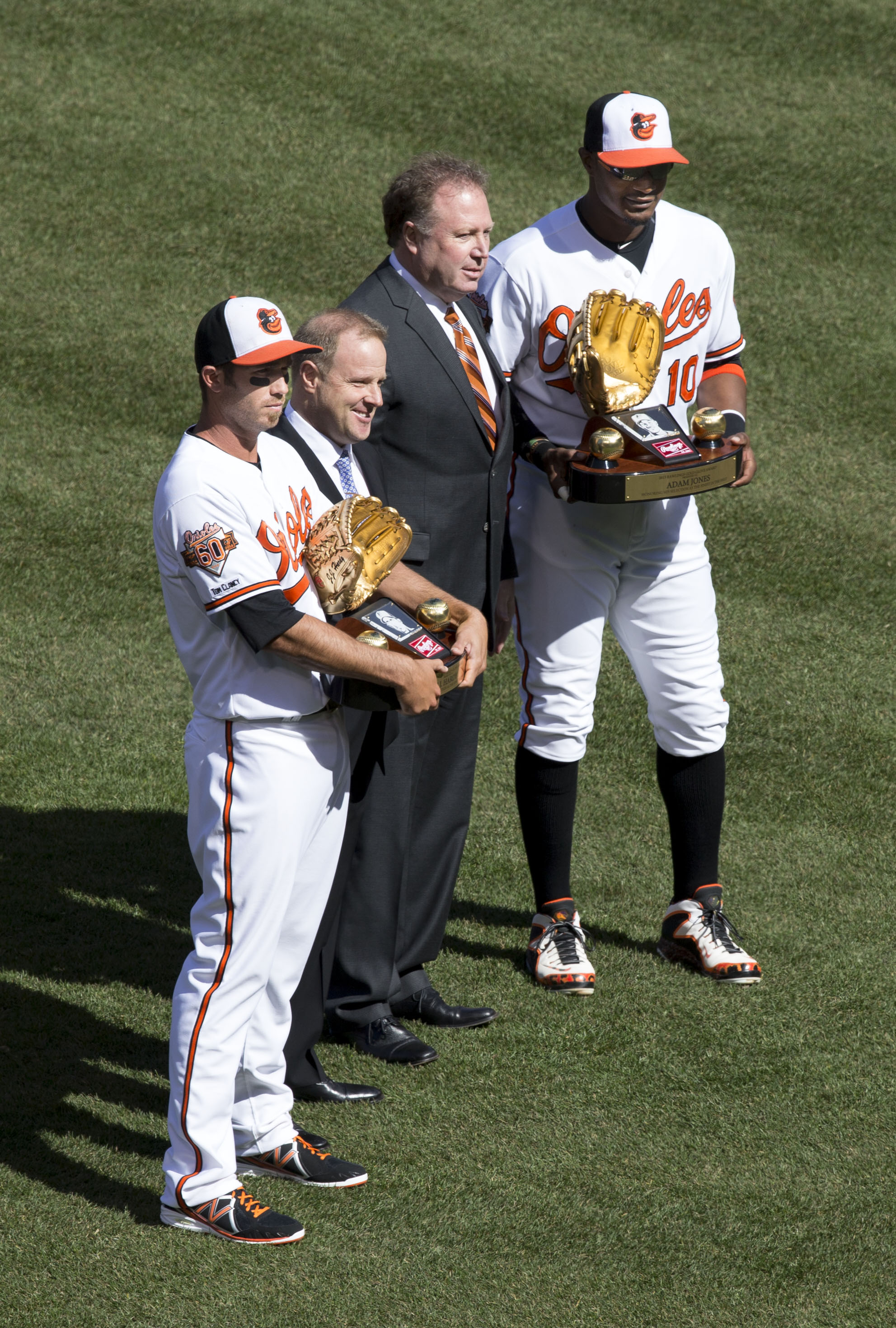 RedSox at Orioles 3/31/14